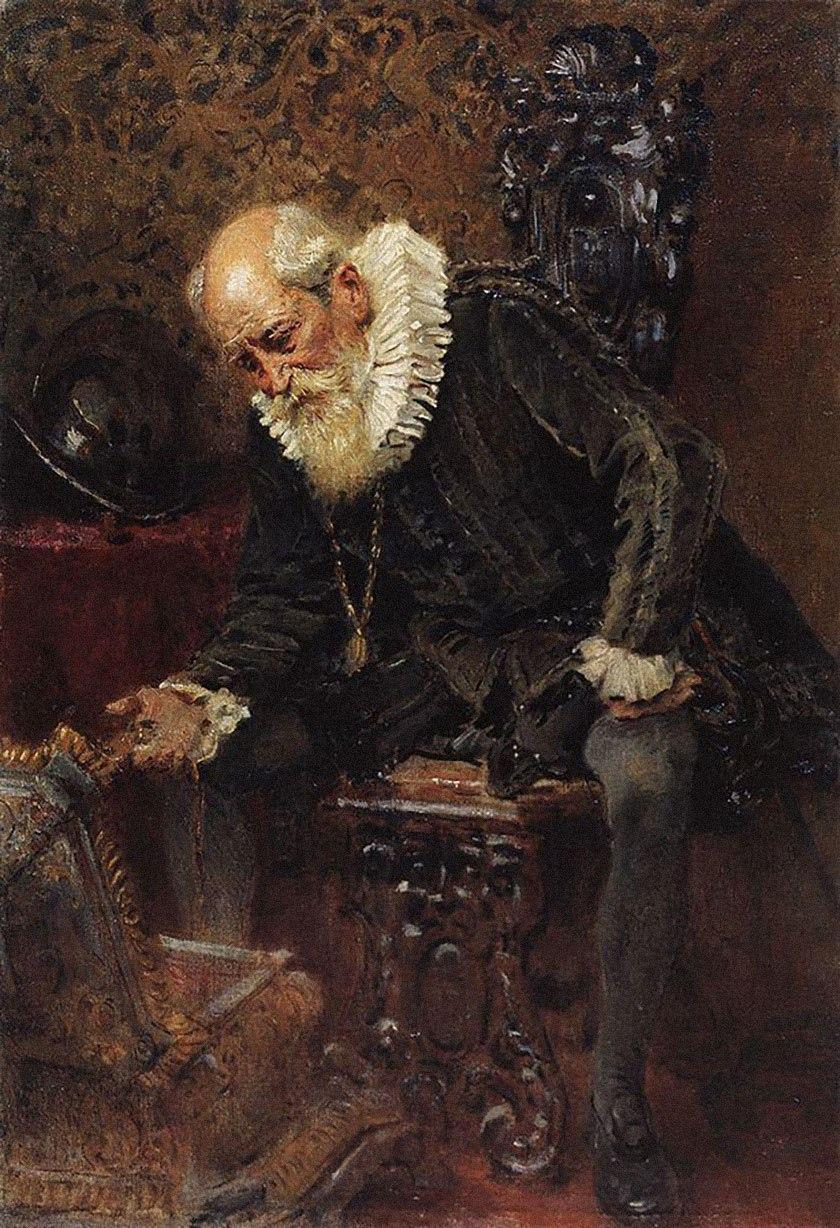 The Miserly Knight